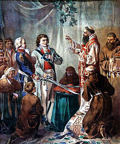 Consecration of the sabres of Tadeusz Kościuszko and Józef Wodzicki in Kraków in 1794